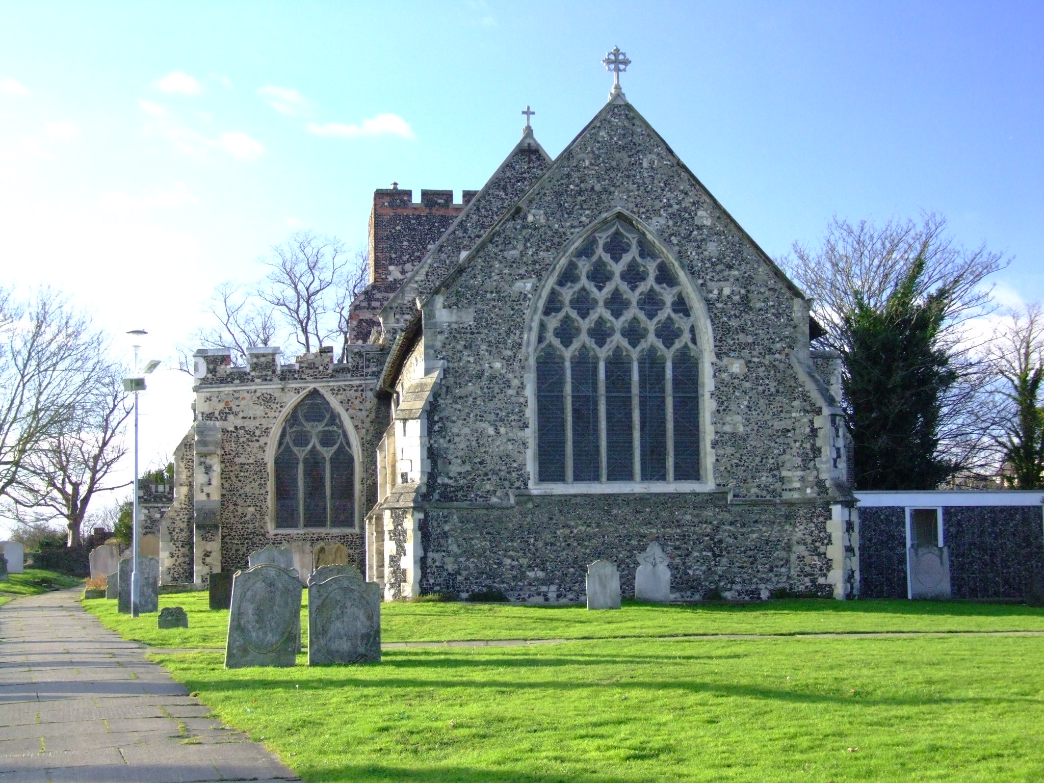 Northfleet merges with Gravesend in Kent. It is on the River Thames estuary. The shore has been excated for chalk, and heavy industry used the recovered land.. Str Botolph´s Church- flint faced-with a fine reticulated style window. - OpenStreetMap (Info)